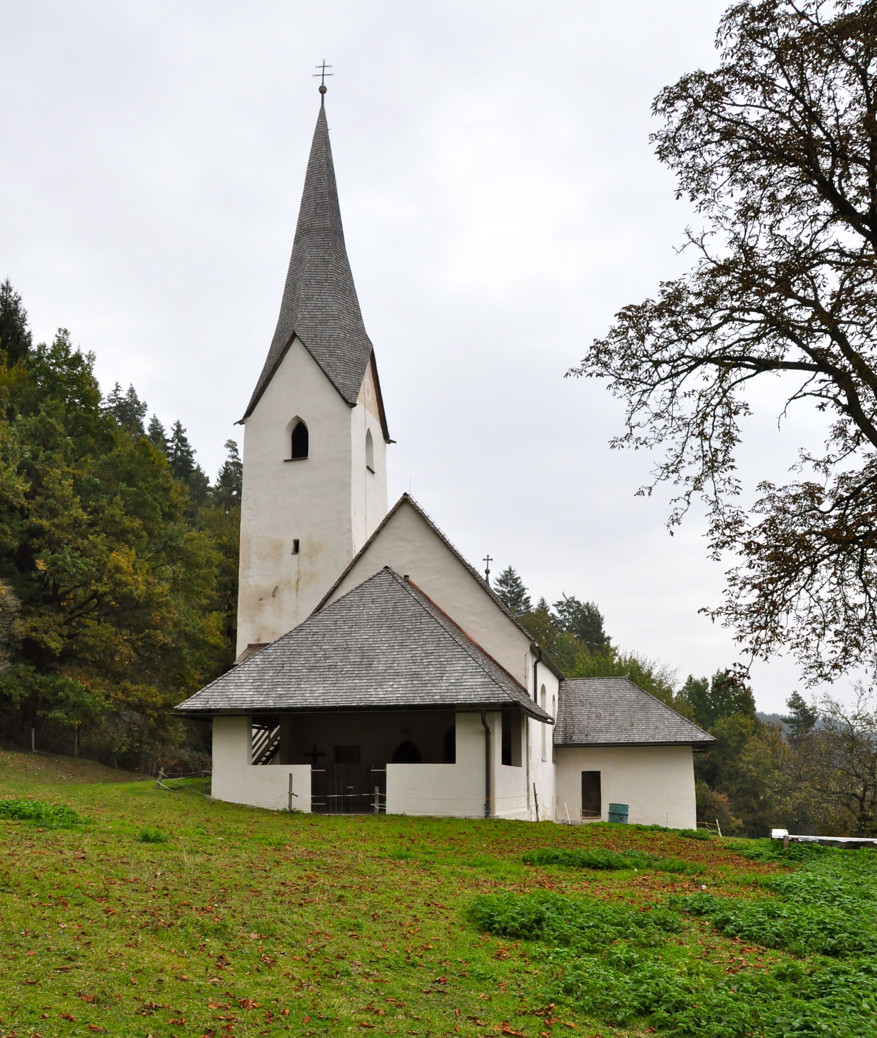 Subsidiary church Saint Andrew in Wutschein, market town Magdalensberg, district Klagenfurt Land, Carinthia, Austria, EU